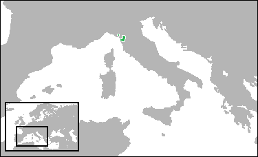 Locator map showing the Duchy of Lucca. (Partially based on map: [1].)